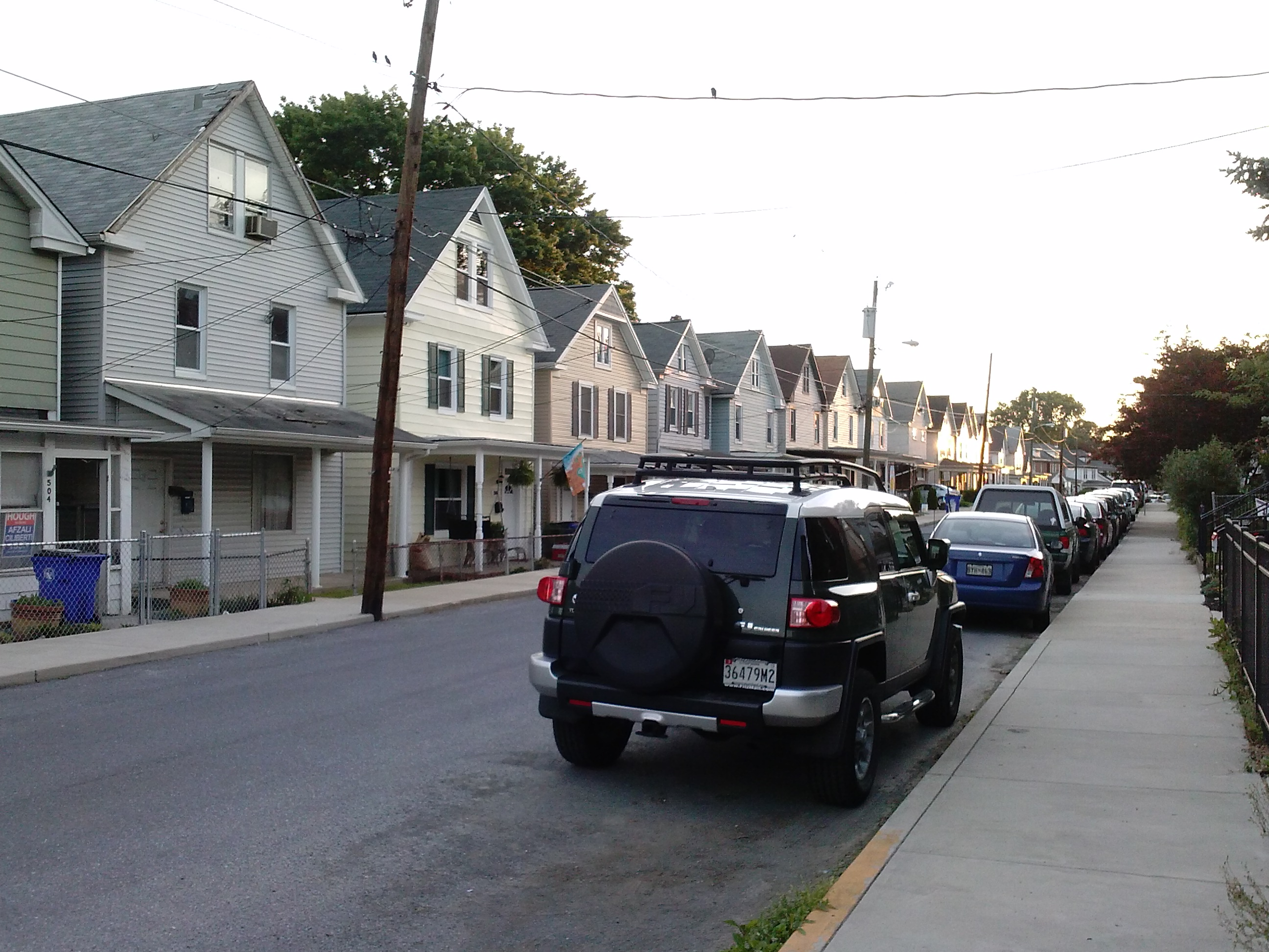 A typical street in the older part of Brunswick.